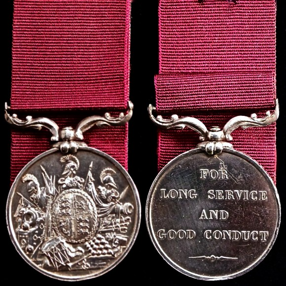 The Queen Victoria version of the Army Long Service and Good Conduct Medal with a swiveling ornamented scroll pattern suspender